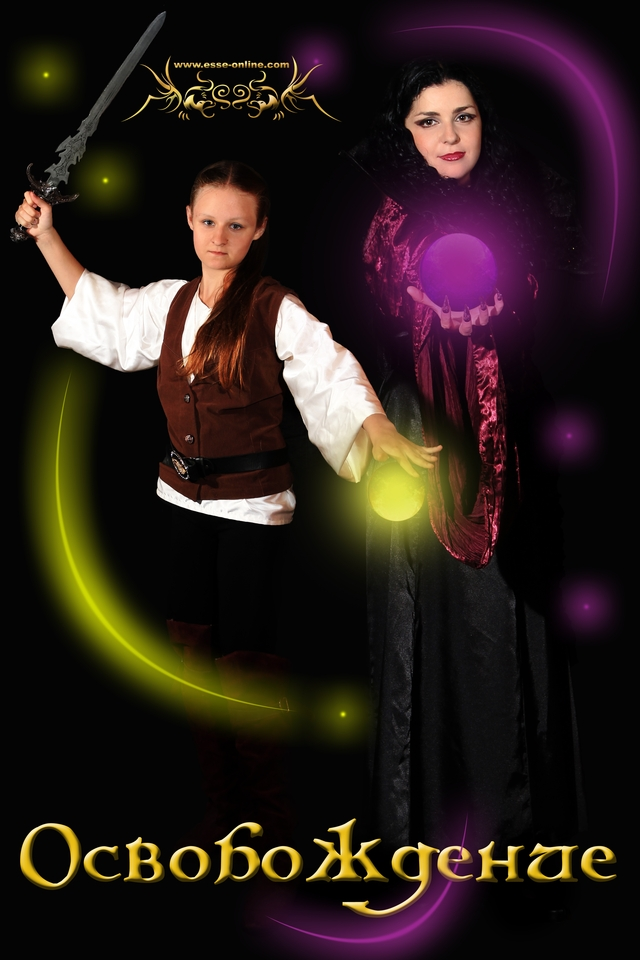 "Liberation". Fantasy rock musical of group "ESSE" -"The Road with No Return", based on the saga of A. Sapkowski "The Witcher". Official poster. Scene 14. Symphonic rock-group "ESSE". Darya Pronina (Cirilla Fiona Elen Riannon' (Ciri or the Lion Cub of Cintra), Zireael. Swallow), Lyudmila Dymkova (Yennefer of Vengerberg). (Poster - Anastasia Vorotnikova. Photo - Yuri Osadchy.)